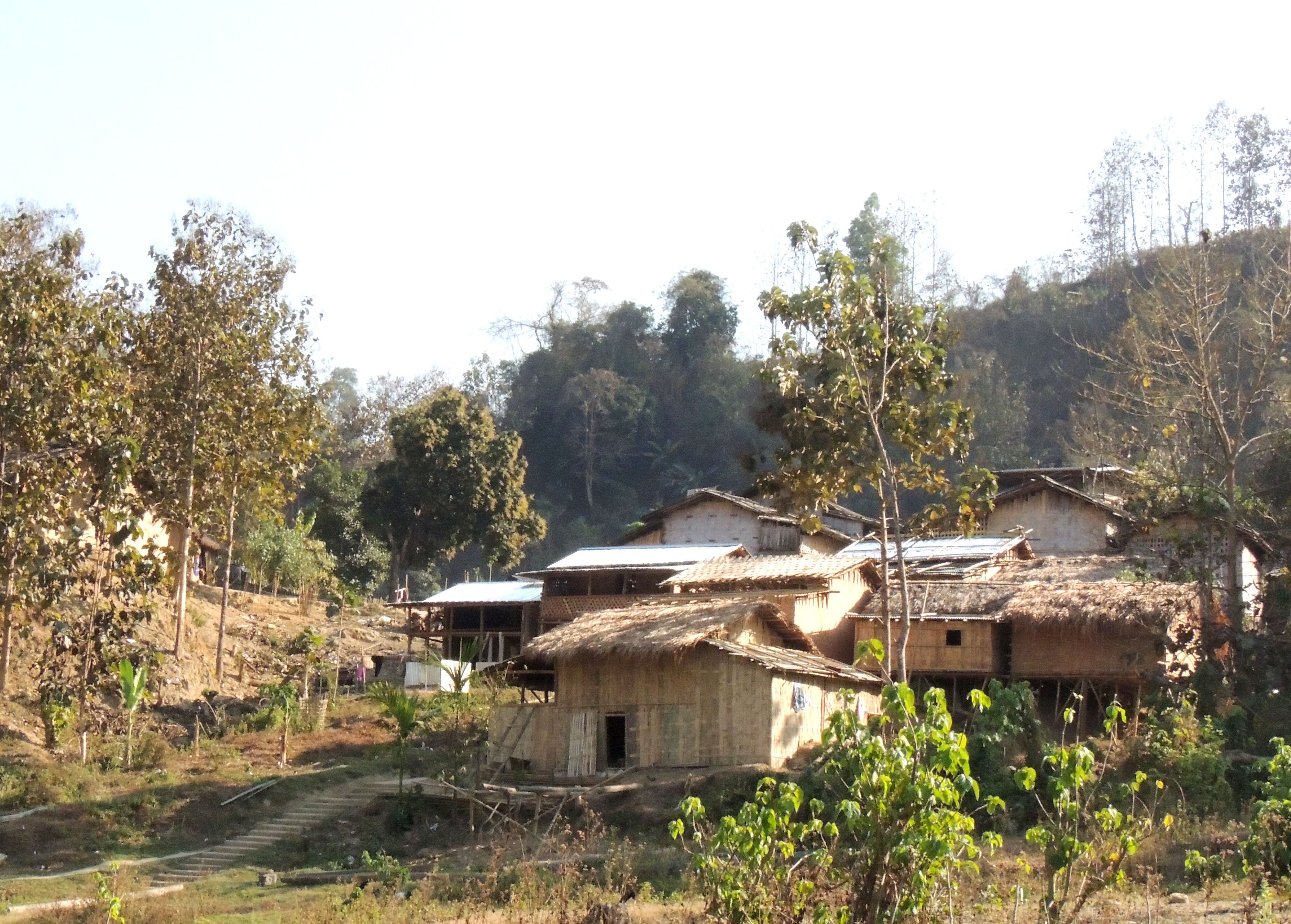 Tindu paRa (Bandarban)